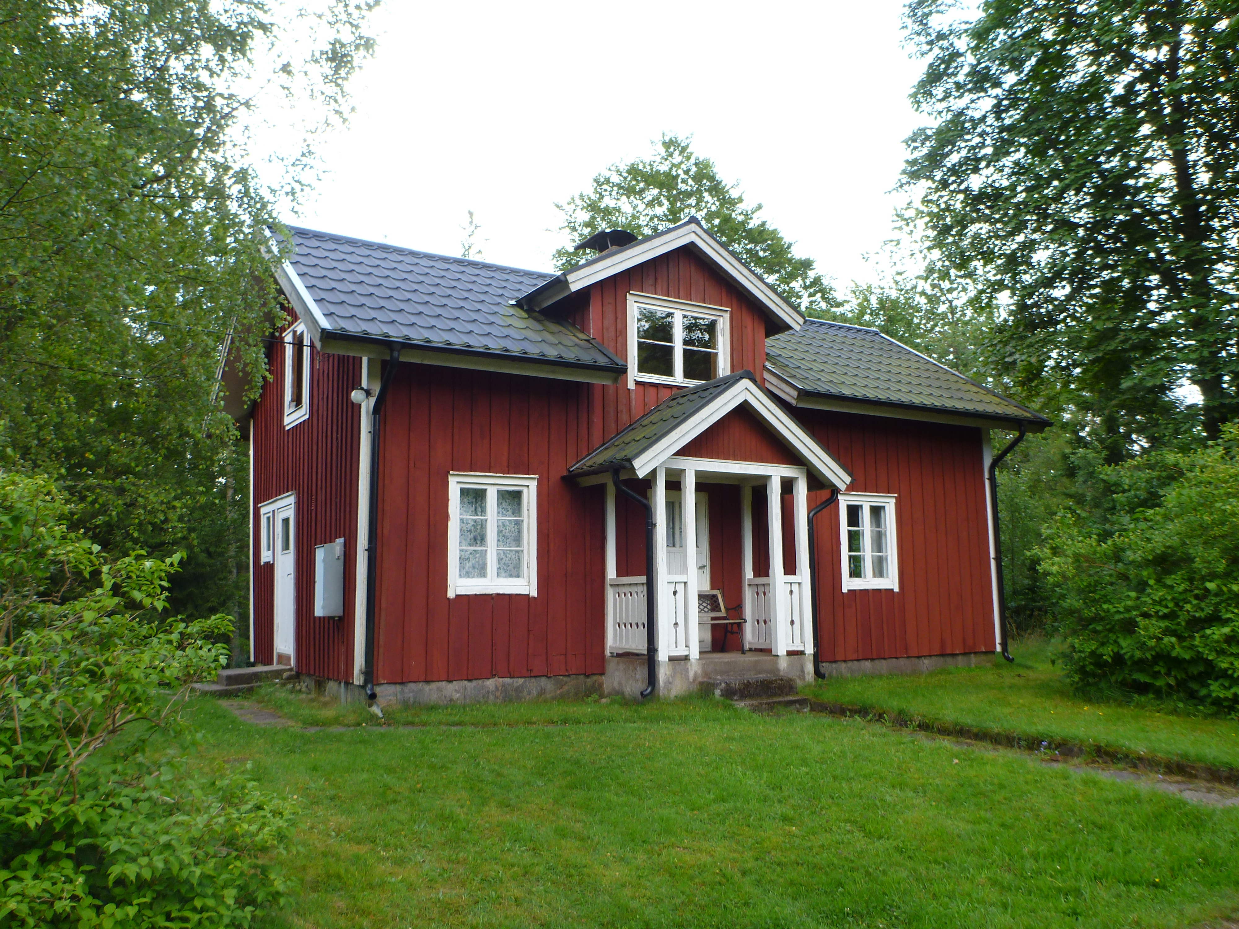 A typical Swedish house in the village Fegen